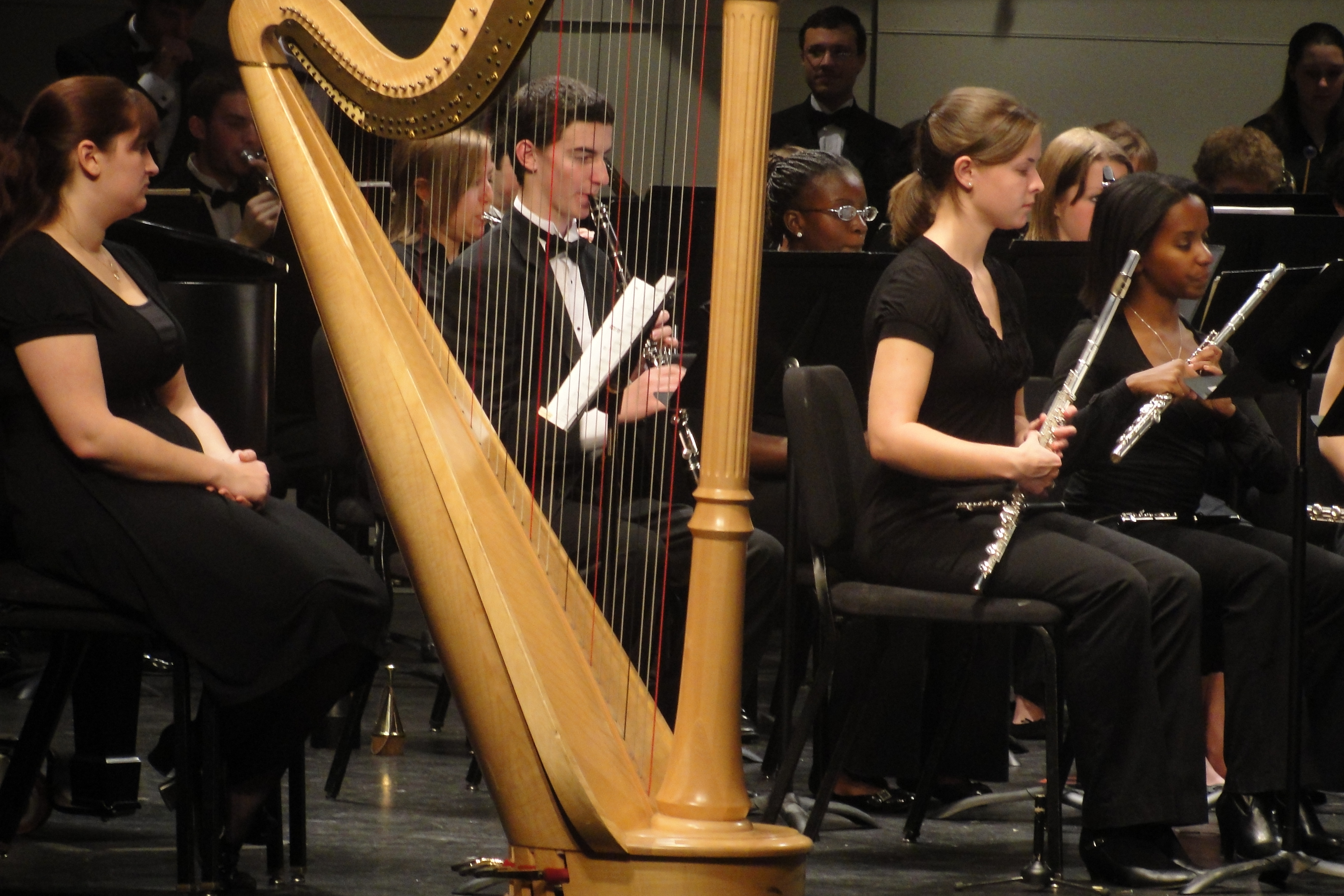 An Orchestral performance at The Millard Auditorium at The Hartt School